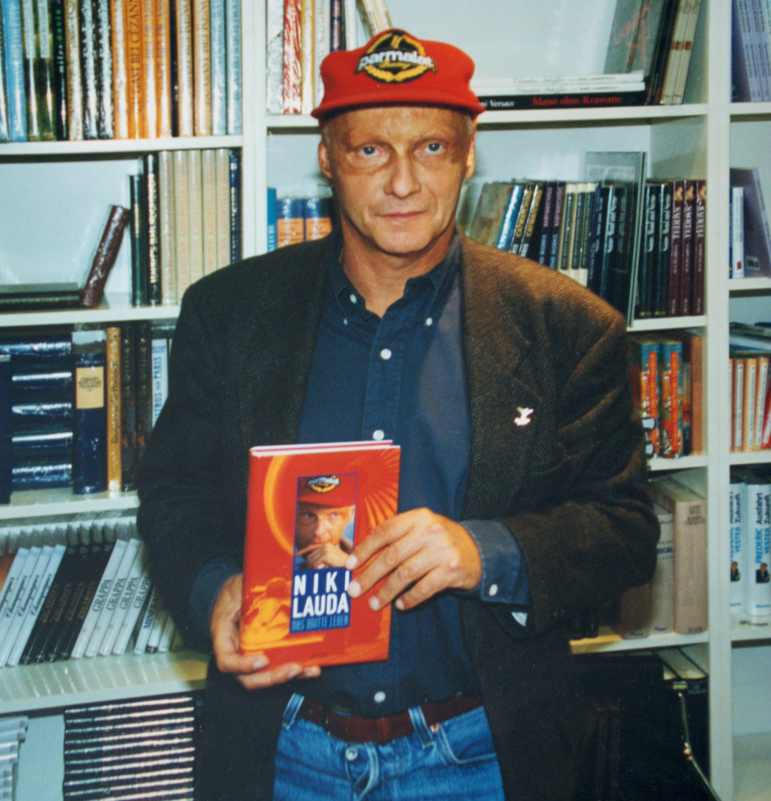 Niki Lauda presenting his book "The Third Life" at 1996 Frankfurt Fair.